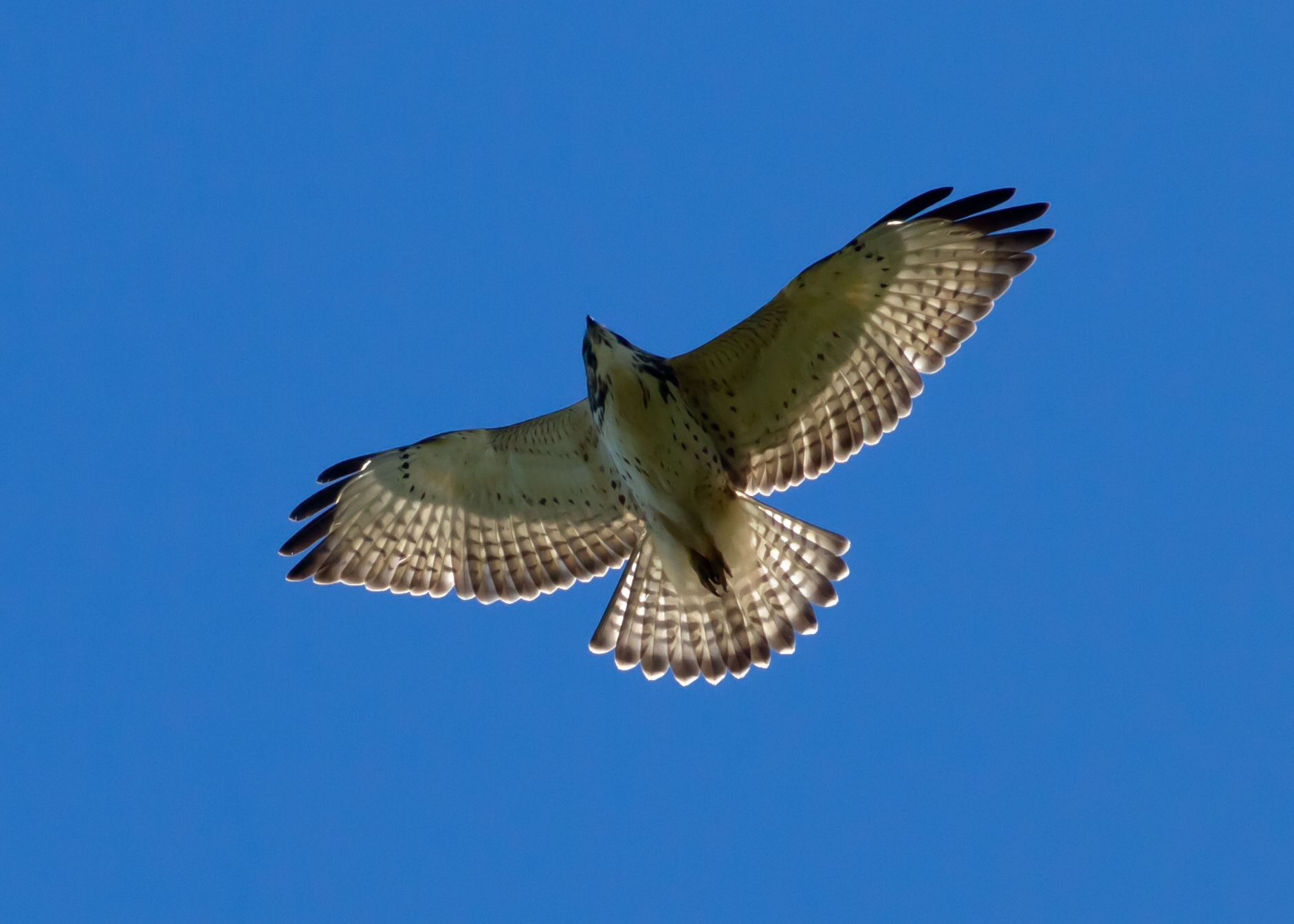 Juvenile Broad-winged Hawk, Buteo platypterus, Rawlins, Dallas, Texas.